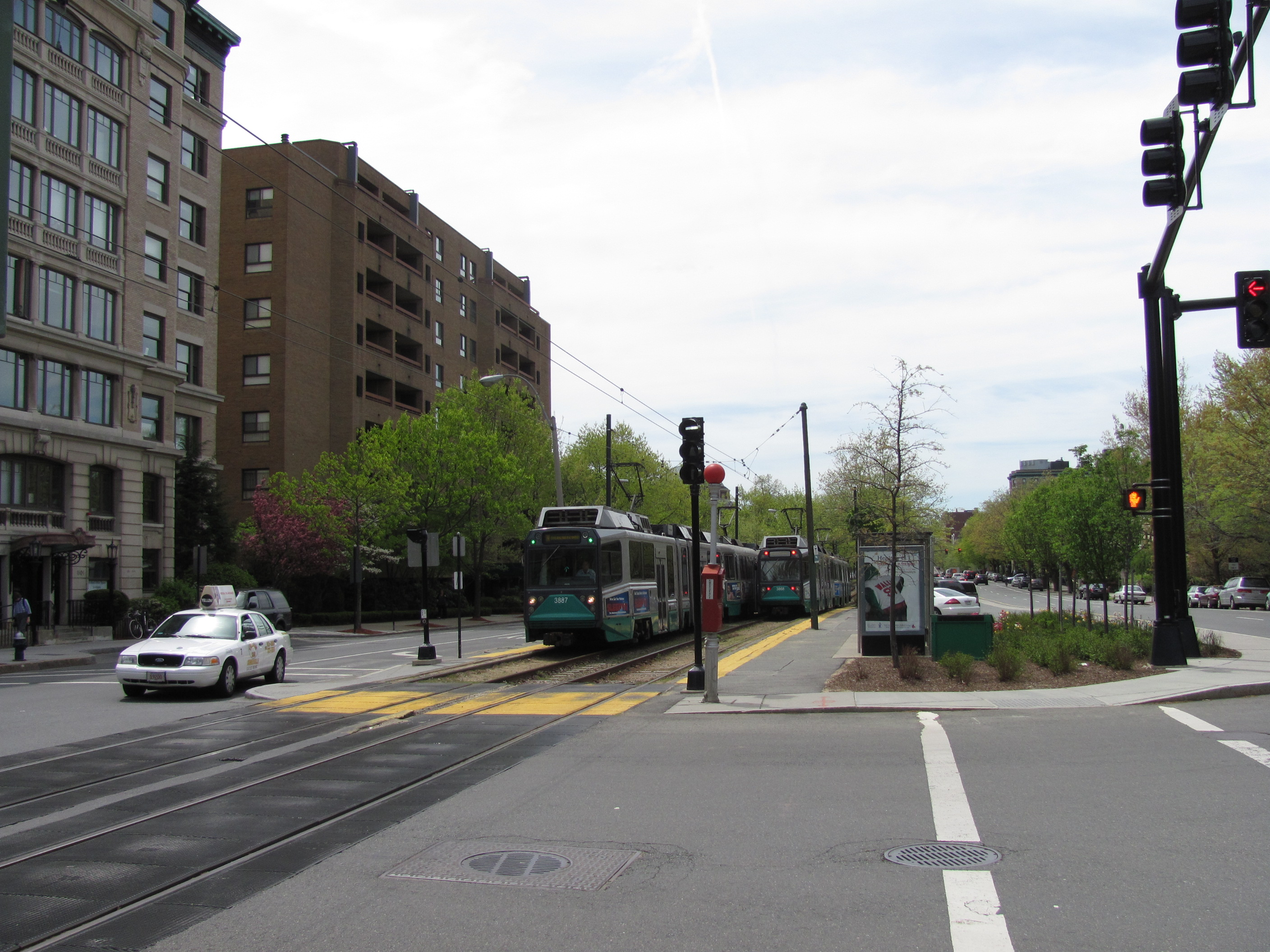 Two Type 8 Green Line trams meet at Hawes Street station on the C branch in Brookline Massachusetts